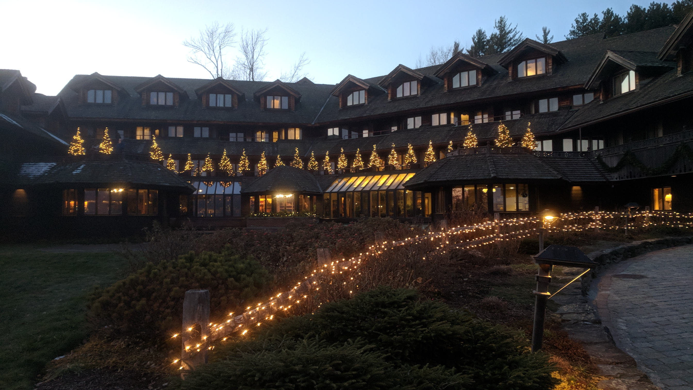 The Trapp Family Lodge in Stowe, Vermont, decked out in Christmas trees the day after Thanksgiving, 2017.